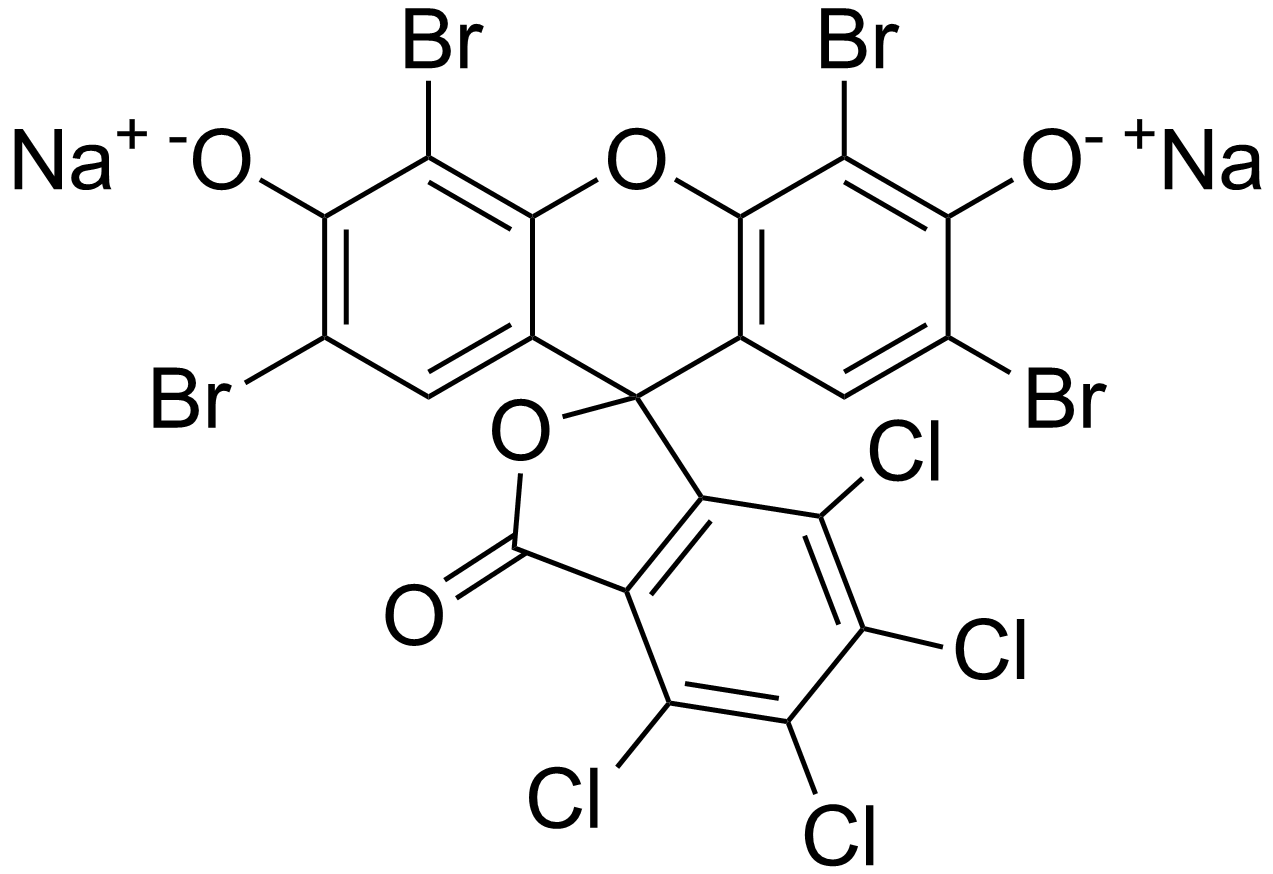 Chemical structure of phloxine B (Cyanosin; Cyanosine; Eosine bluish; Eosine Blue; Cyanosin B; Eosin Blue; Phloxine P; Phloxin B; Eosine I Bluish; Acid red 92)